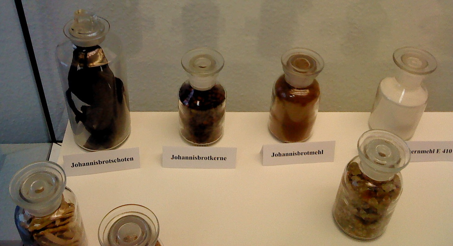 Carob products (chemistry).